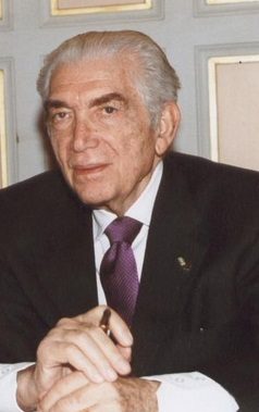 Persian prince Gholam-Reza Pahlavi (R) and Iman Ansari, editor of the book "Mon père, mon frère, les Shahs d'Iran". Book Launch Ceremony in Nice, France, 2007.